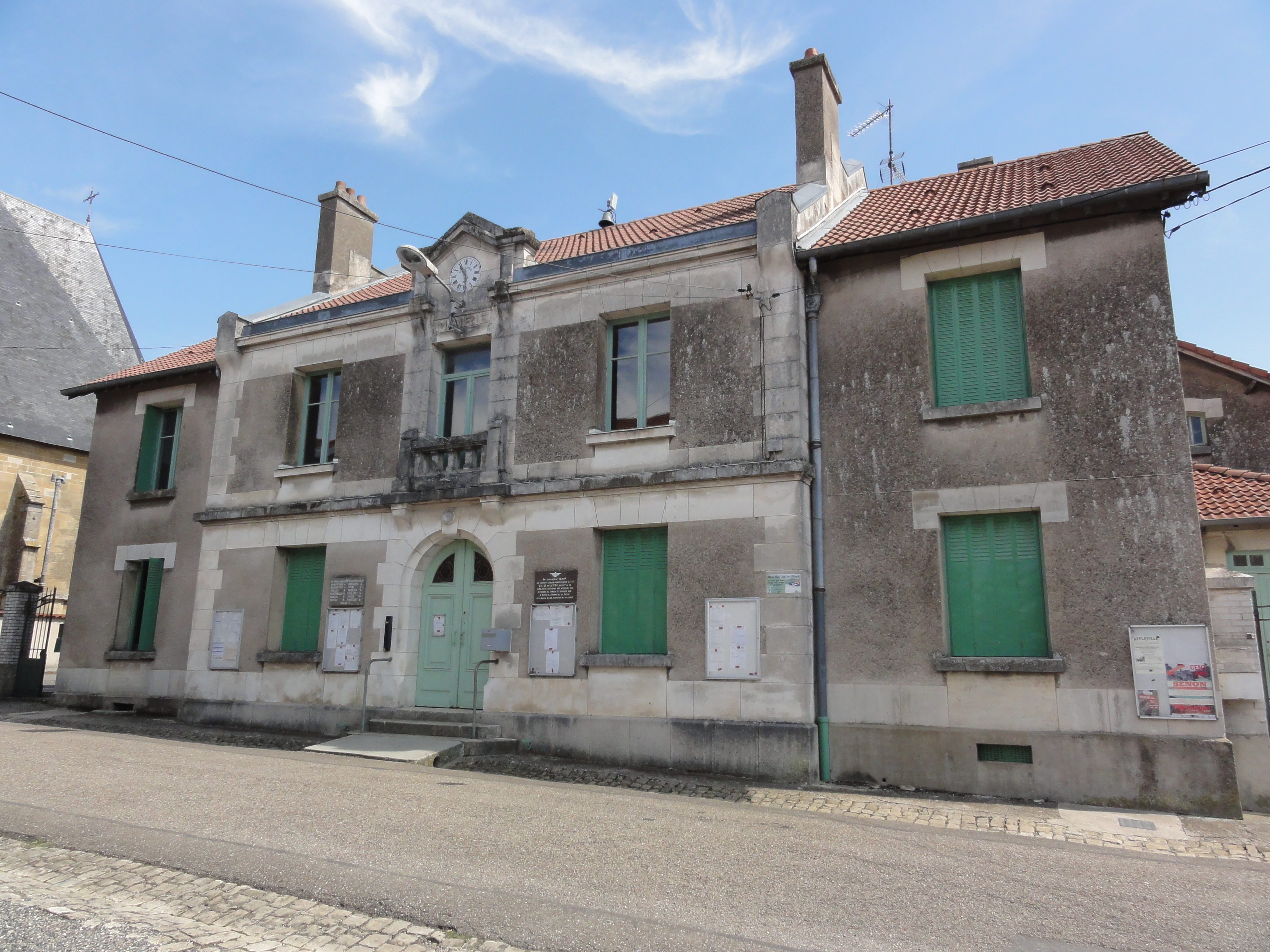 Senon (Meuse) mairie